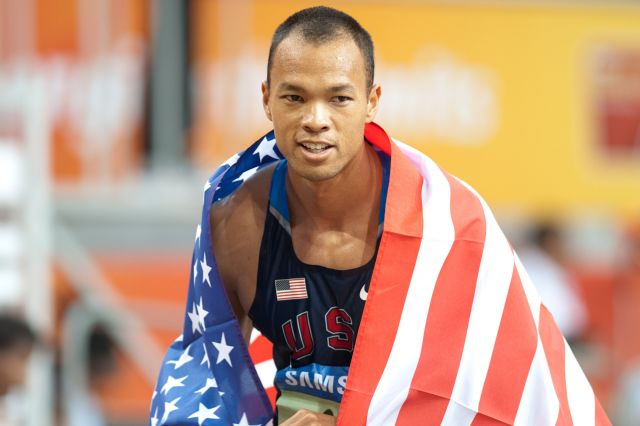 Bryan Clay during Doha 2010 World Indoor Championships